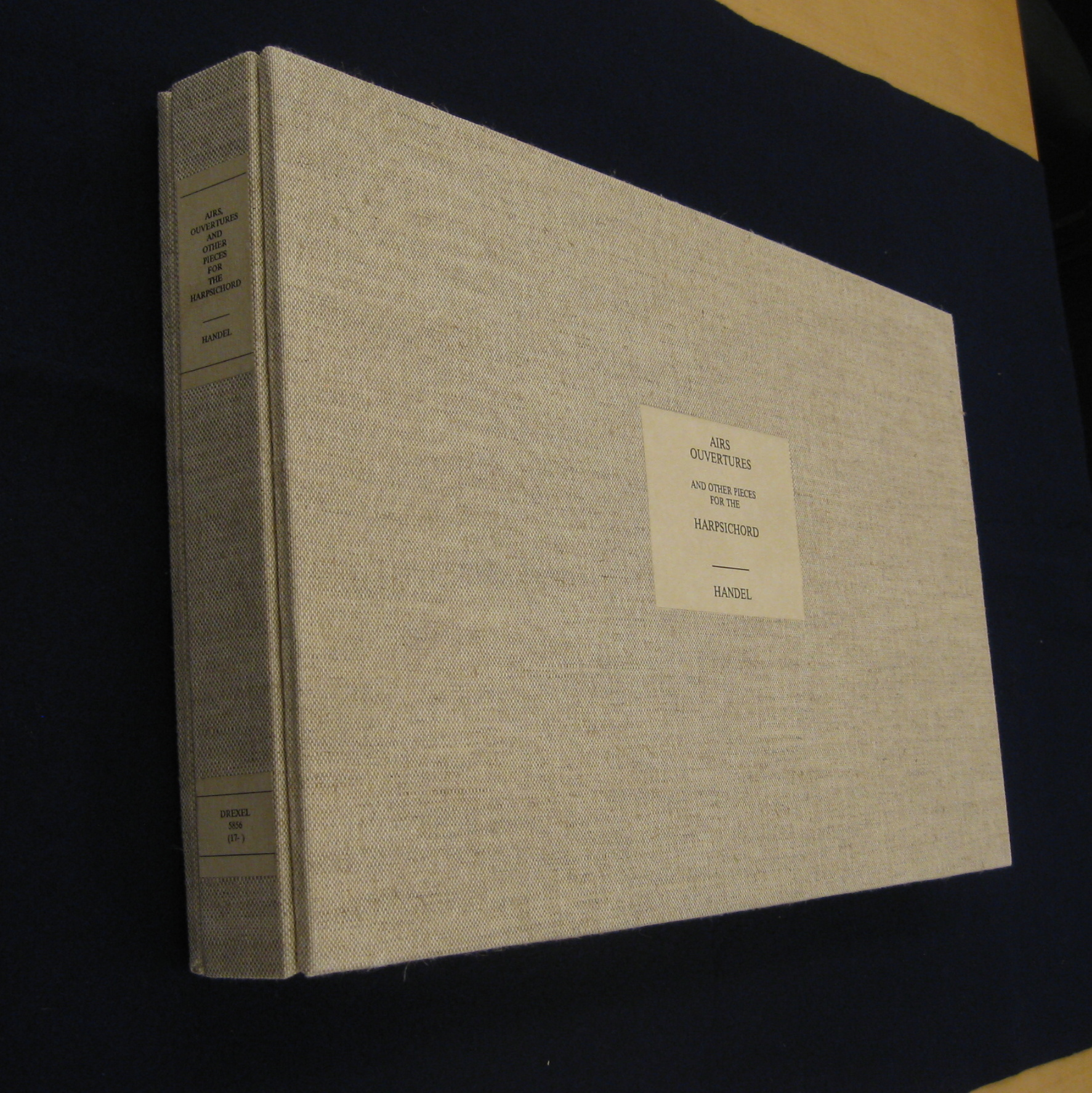 Cover of Drexel 5856, an 18th century music manuscript containing works by George Frideric Handel copied by John Christopher Smith